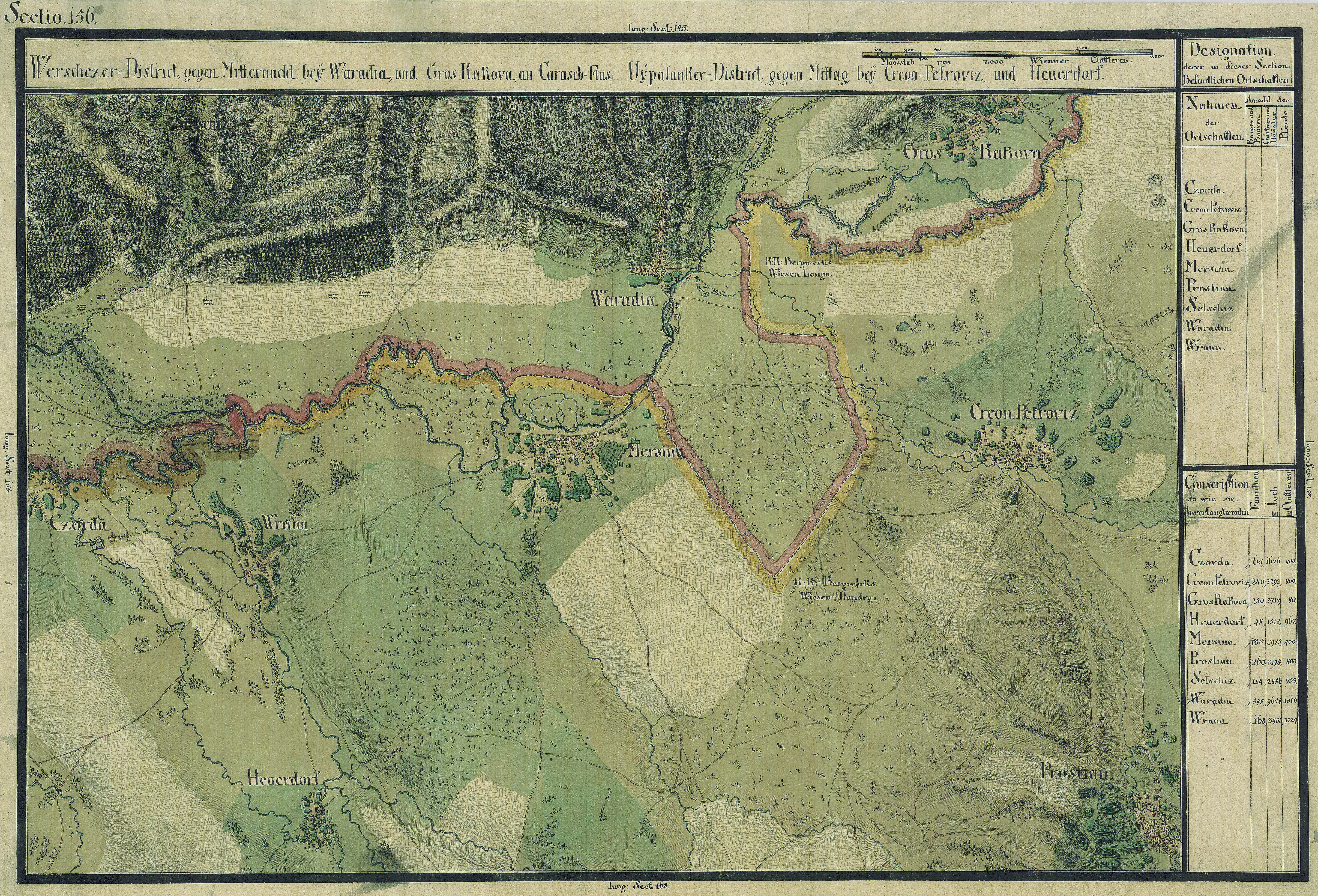 The Banat region in the cadastral maps: Josephinische Landesaufnahme, 1769-72. Josephinische Landaufnahme pg156